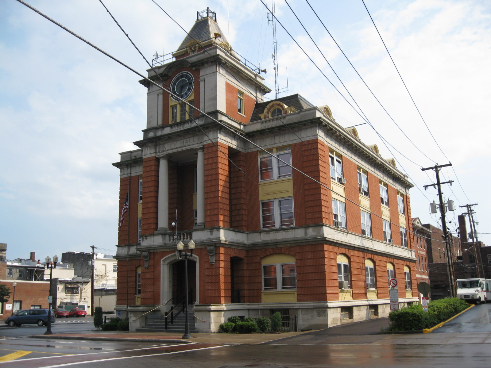 Geneva City Hall (1913, 1940), Geneva, New York